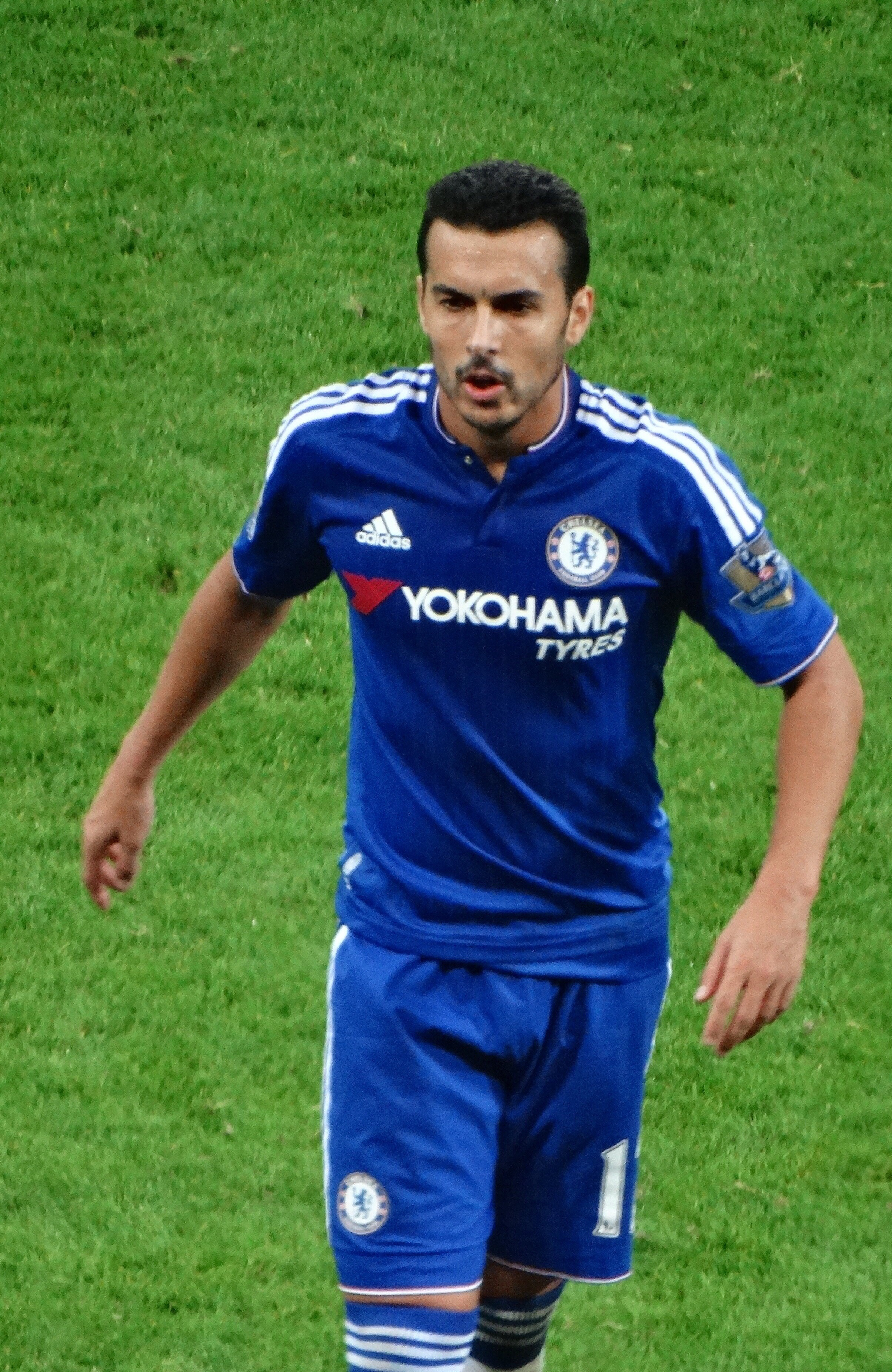 Pedro playng for Chelsea